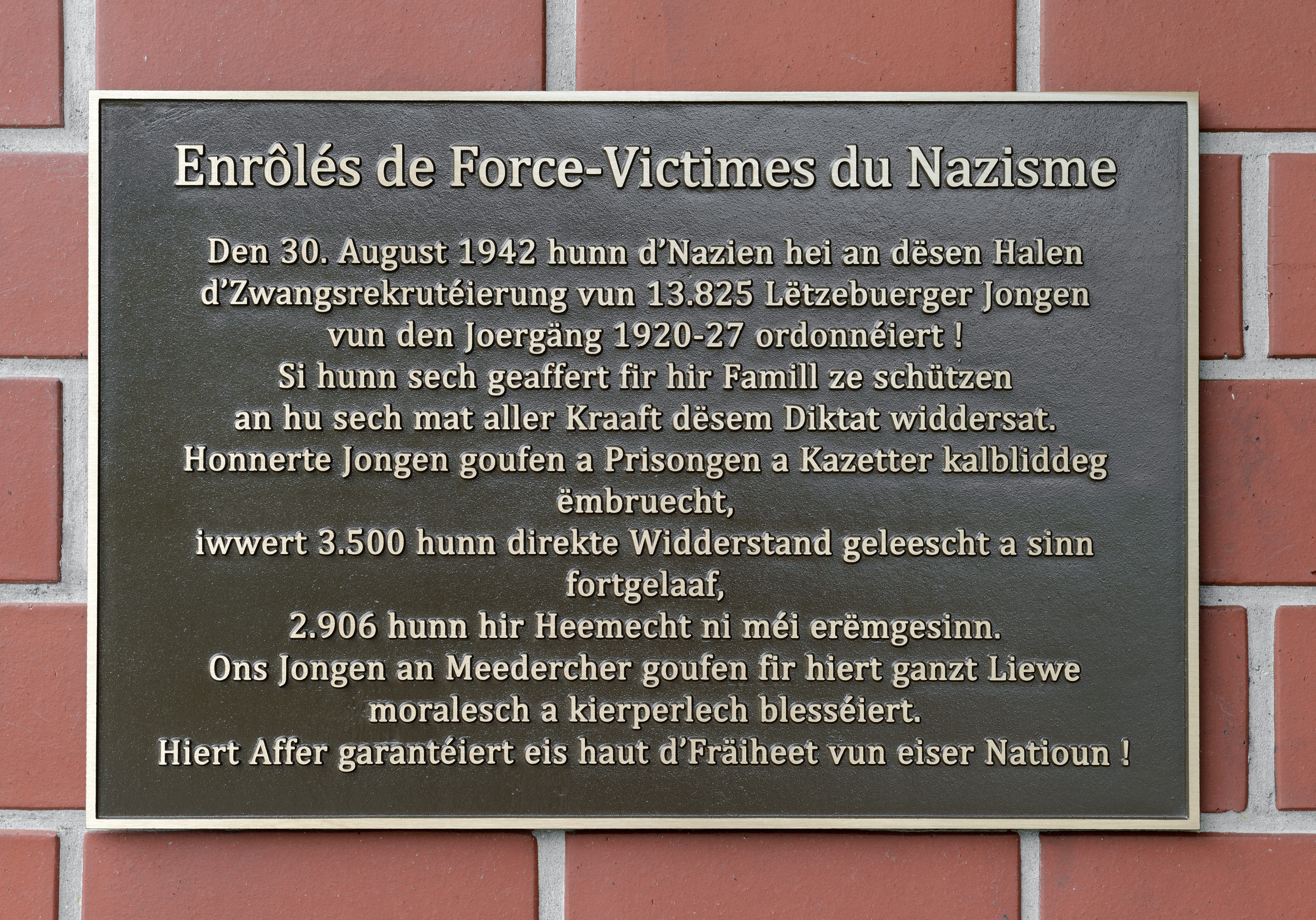 Plaque commemorating the forced conscription of the young Luxembourgish men into the German Wehrmacht in 1942. The conscription was made public in this building (presently named Halle Victor-Hugo) on August 30 1942 by gauleiter Gustav Simon (1900-1945) Title in French, text in Luxembourgish. The plaque was inaugurated on August 30 2012.